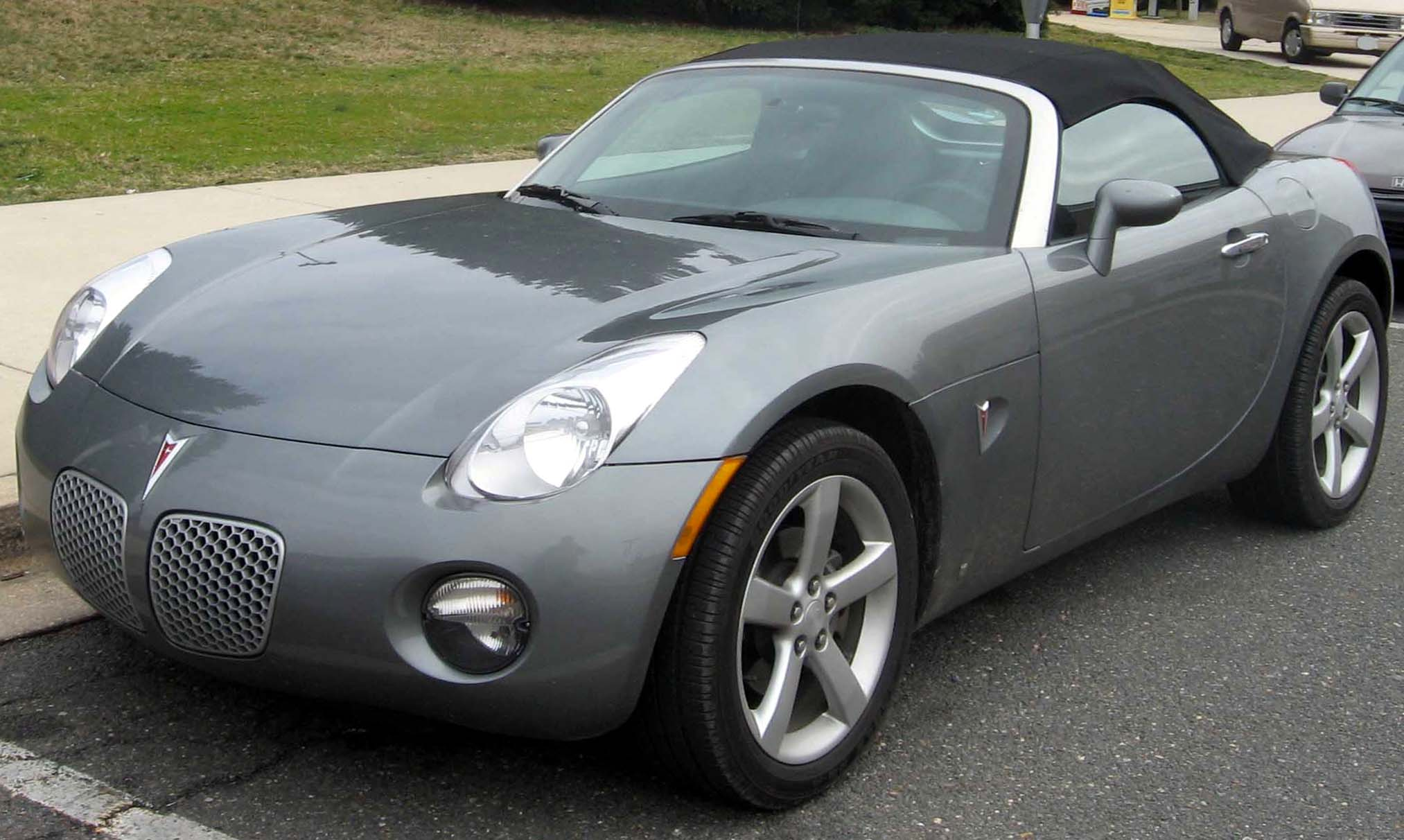 2006-2008 Pontiac Solstice photographed in College Park, Maryland, USA.